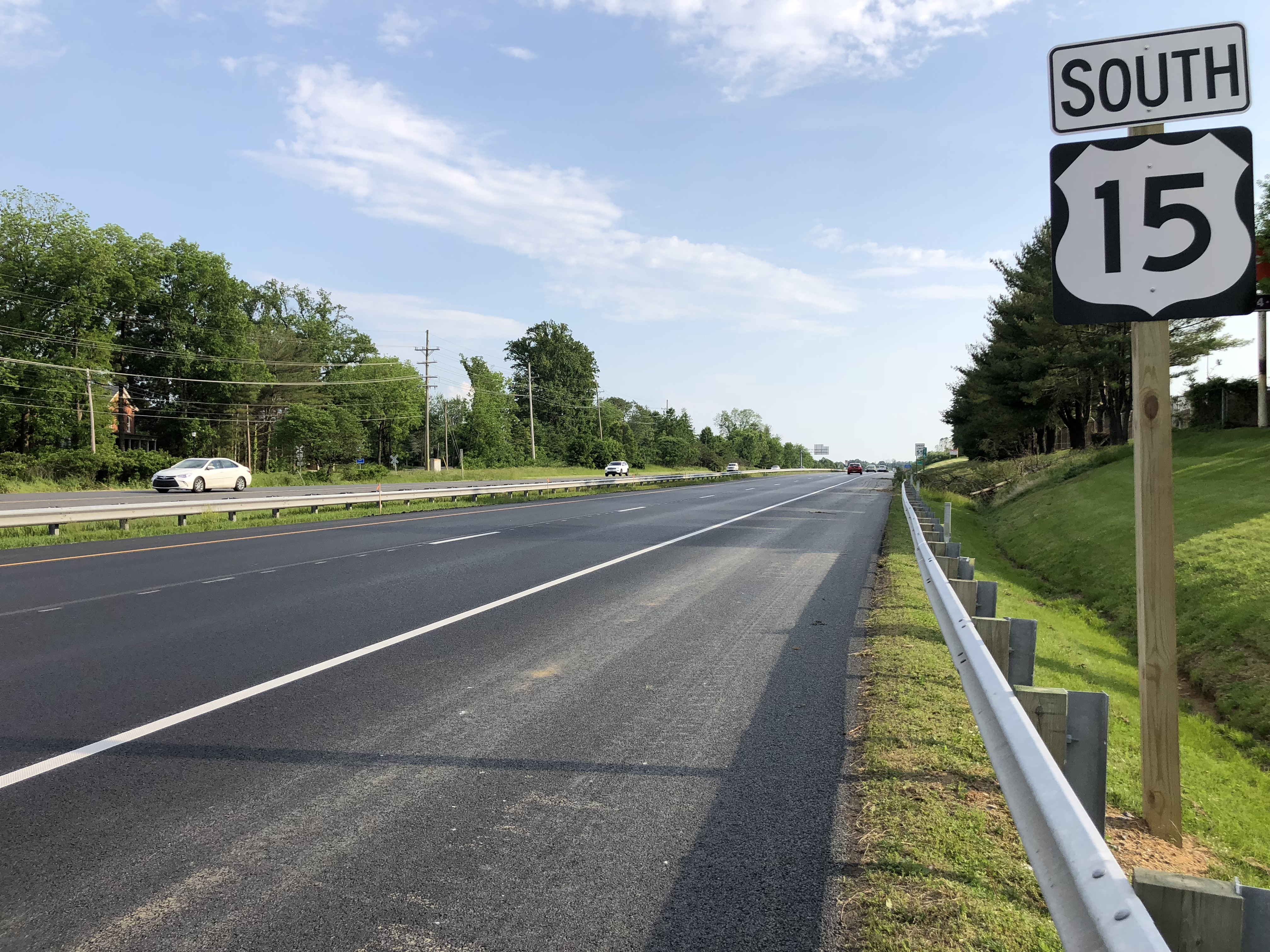 View south along U.S. Route 15 (Catoctin Mountain Highway) just south of Monocacy Boulevard in Frederick, Frederick County, Maryland